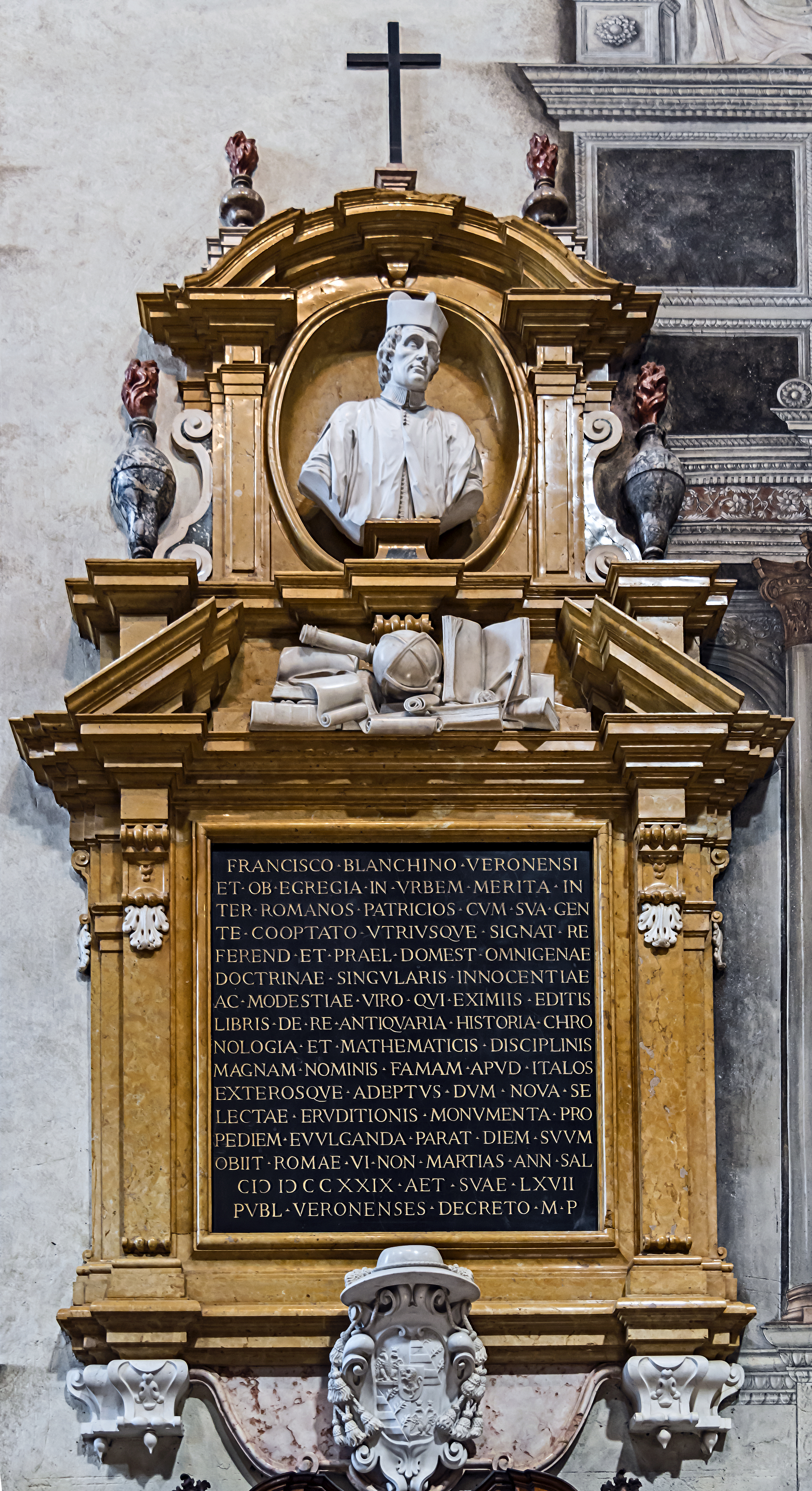 Cathedrale Santa Maria Matricolare in Verona. Monument to Francesco Bianchini; bust by Goulio Schiavi.